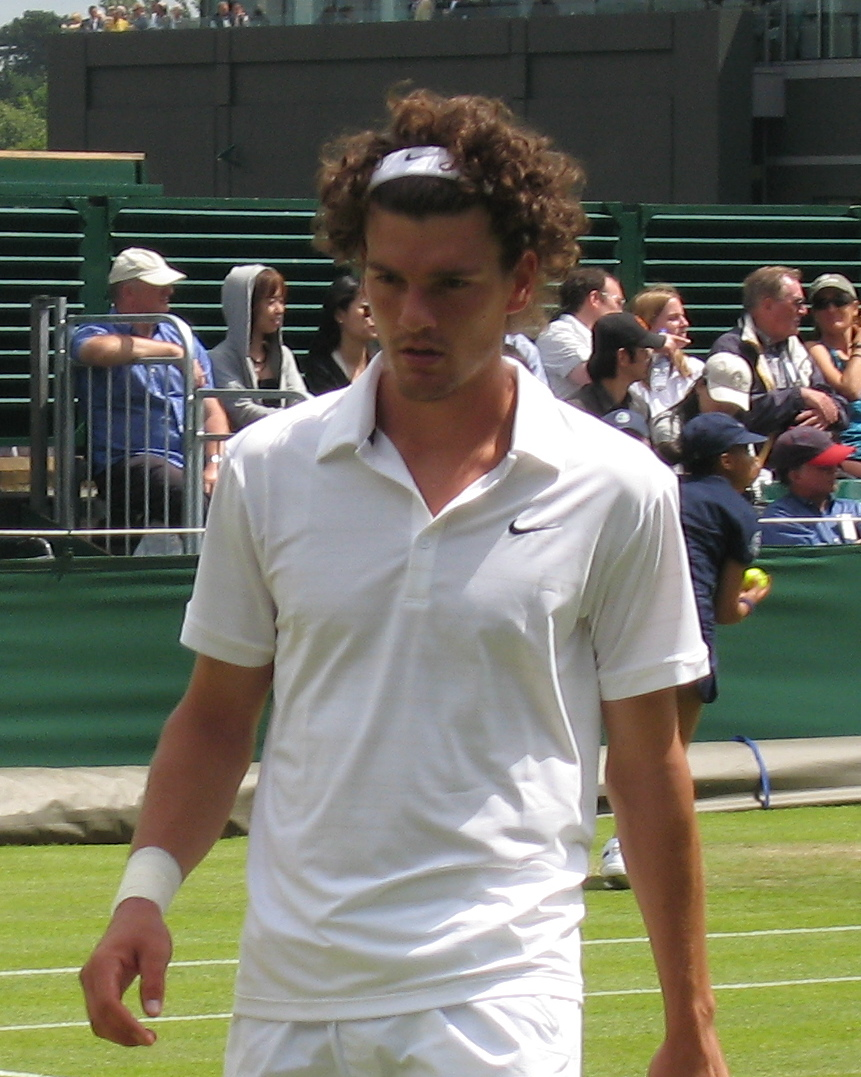 Frank Dancevic at Wimbledon 2008, 2nd Round